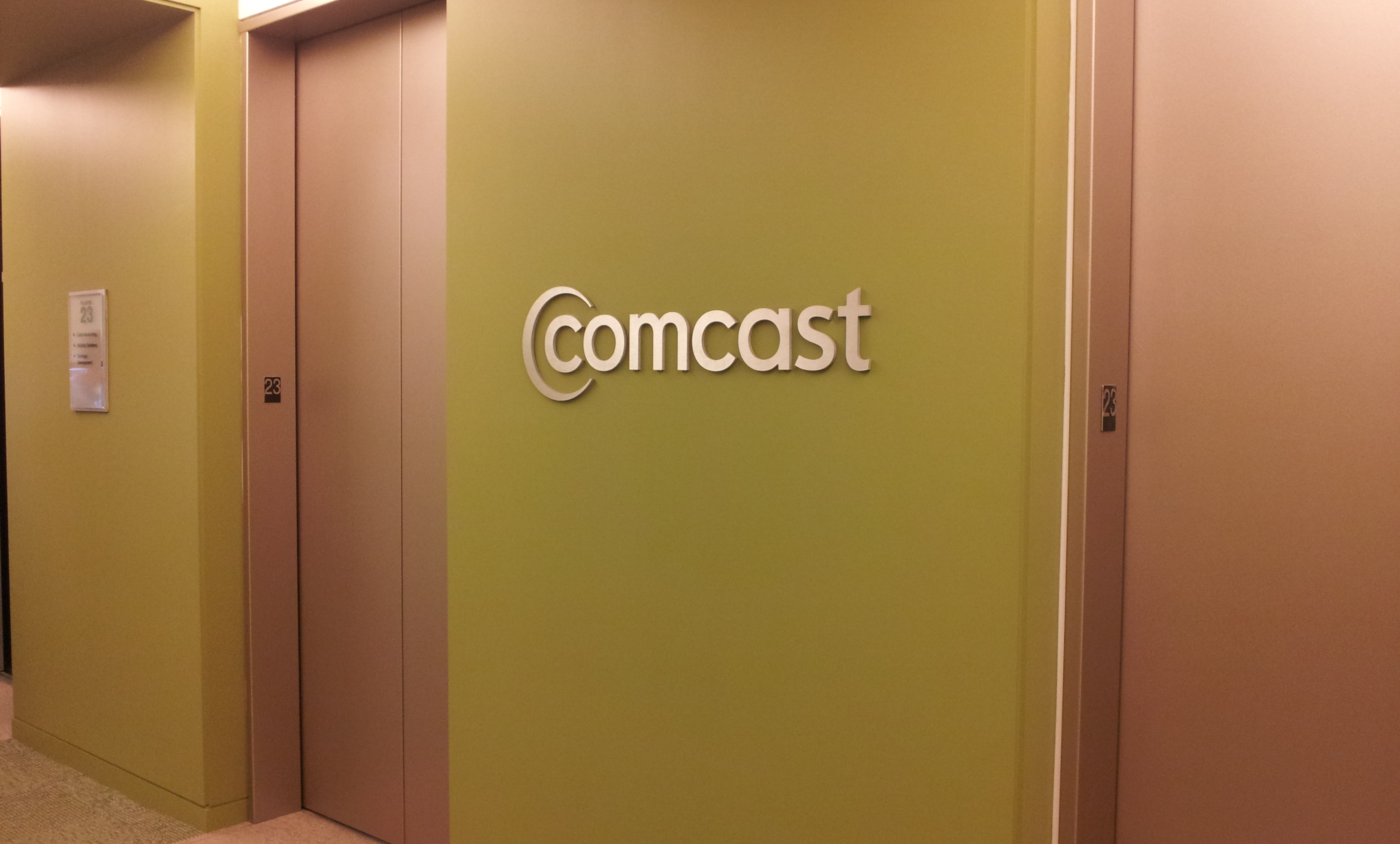 Elevator Lobby on the 23rd Floor of the Comcast Center in Philadelphia, Pennsylvania